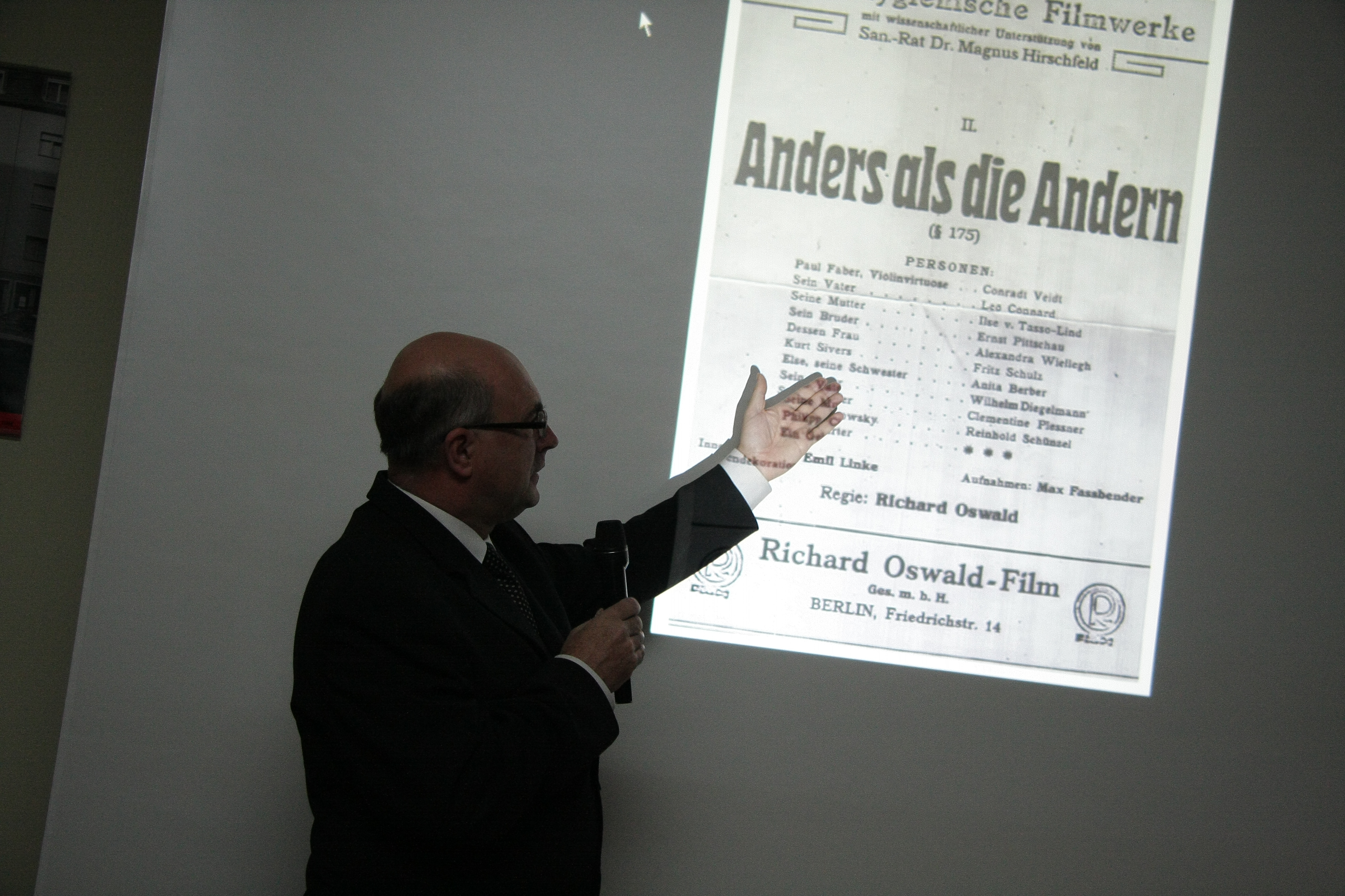 Ivan Chechot. International Gay and Lesbian Film Festival «Side by Side»